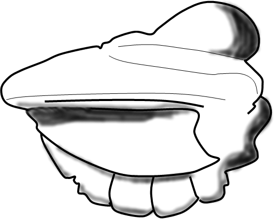 A drawing of Chelediscus acifer, enroled specimen, lateral view based on a photograph as printed in the Treatise on Invertebrate Paleontology, Part O, Arthropoda 1, Revised, Trilobita, vol. 1 (1997), figure 245,1a/b. Specimens from the upper Protolenus-zone, Purley Shale, England (Warwickshire). Based on the holotype.